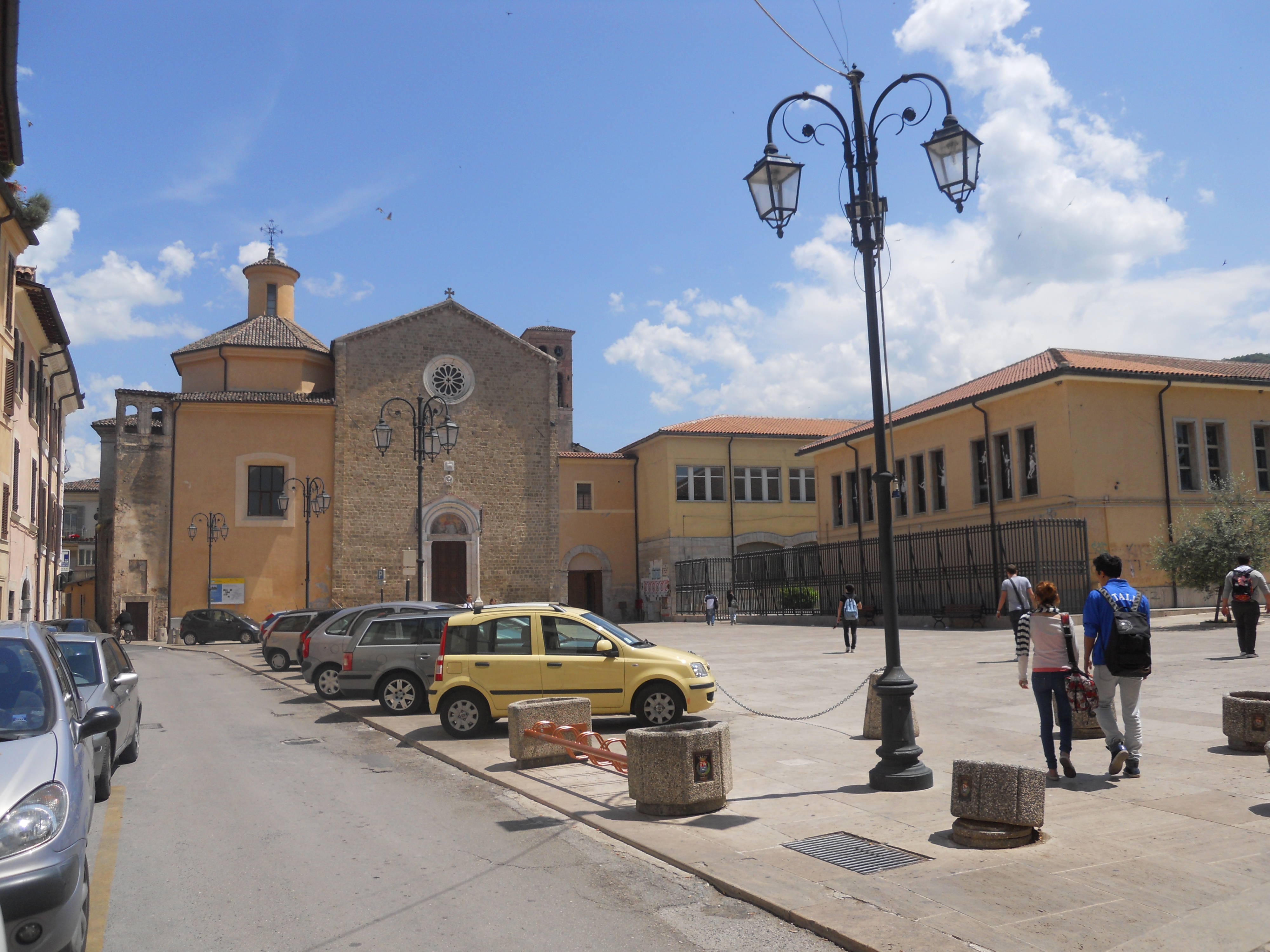 Exterior of St. Francis church, in the homonymous square - Rieti, Italy